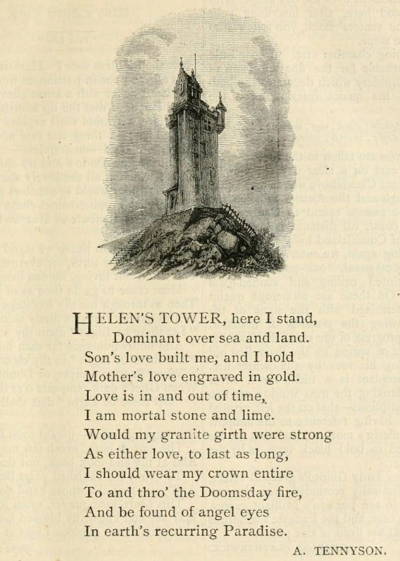 Excerpt from the article by Cjarles Blatherwick about Helen's Tower in Good Words for 1884 showing the poem by Lord Tennyson and an ilustration